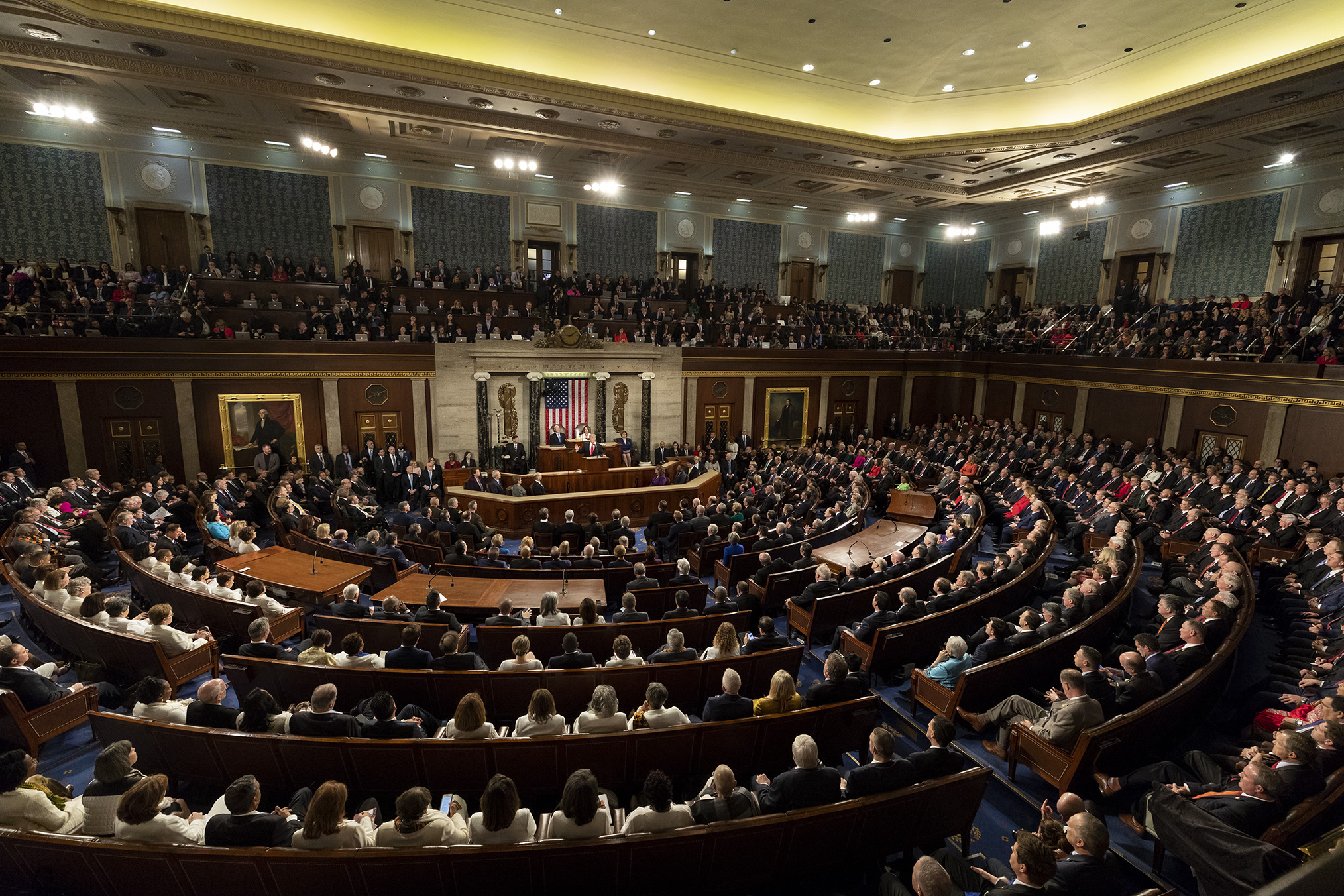 President Donald J. Trump delivers his State of the Union address at the U.S. Capitol, Tuesday, Feb. 5, 2019, in Washington, D.C. (Official White House Photo by Joyce N. Boghosian)